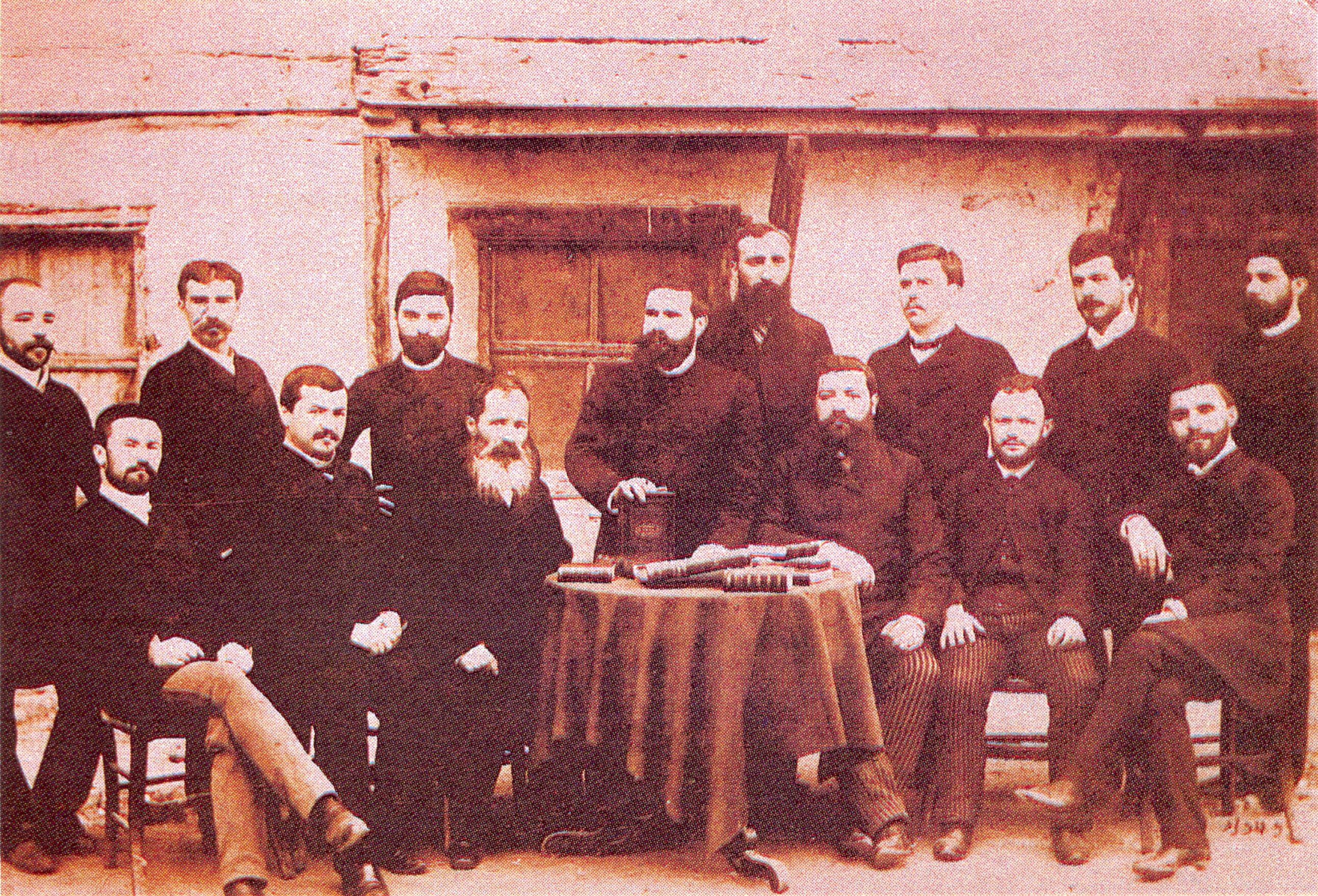 Teachers from the Bulgarian men's high school "Sts. Cyril and Methodius" in Thessaloniki, 1890